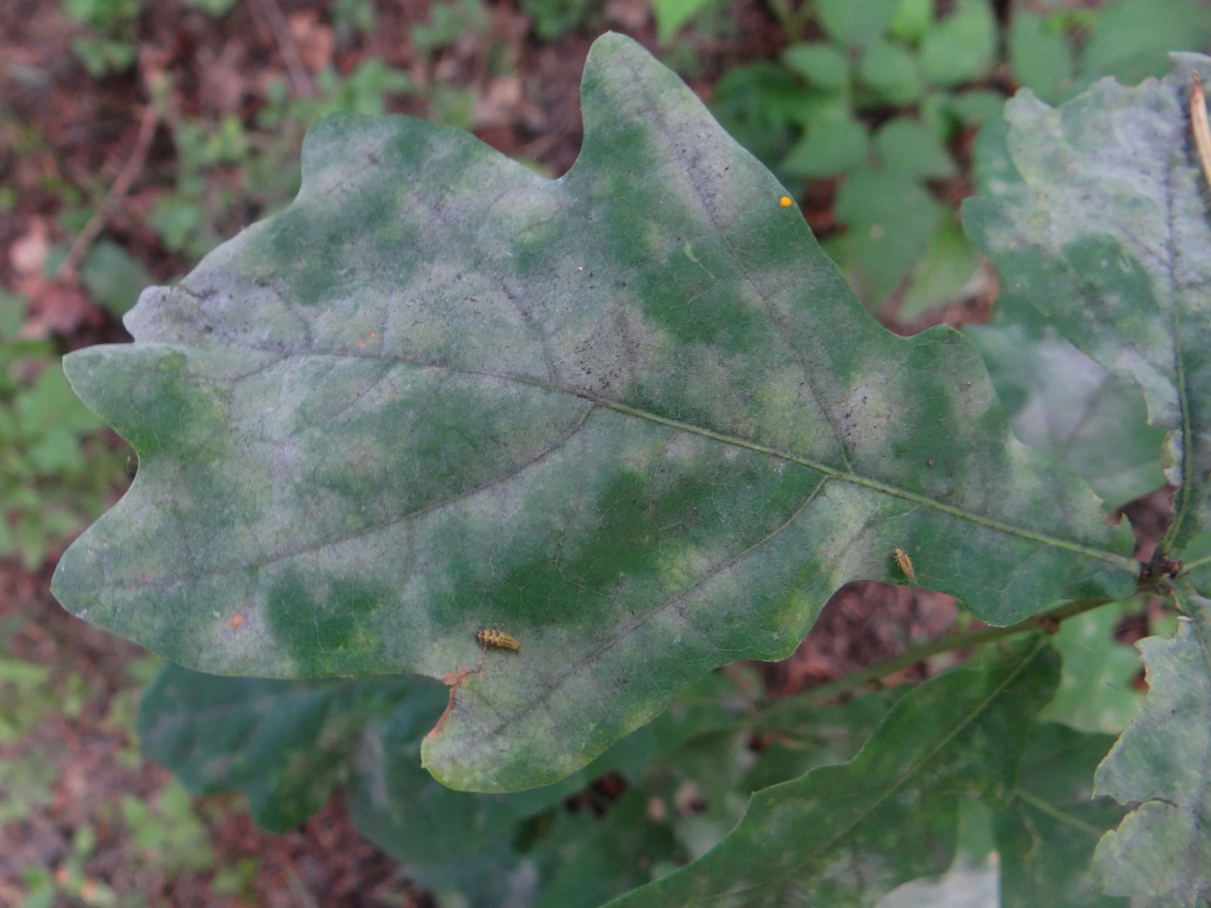 Erysiphe alphitoides on Quercus sp.(location: Poland, Beskid Wyspowy, Łopień)